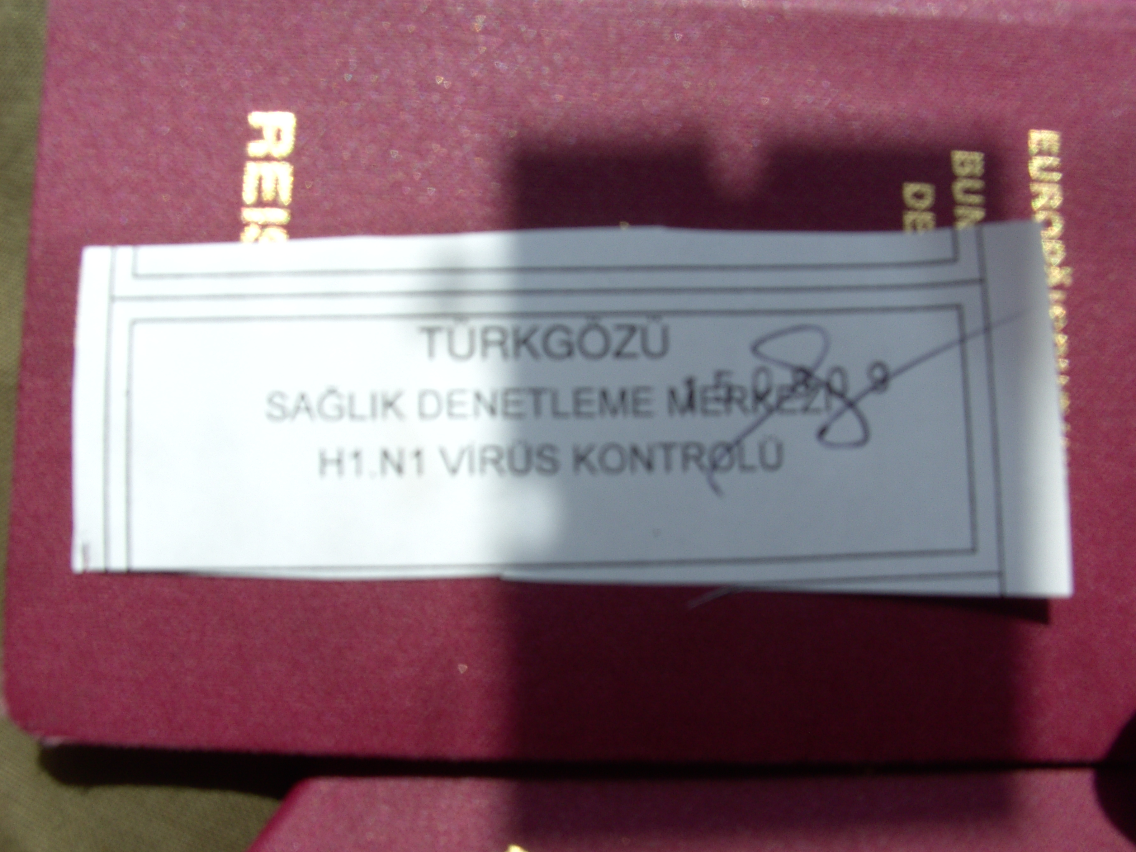 German passport with Turkish H1N1 control sheet, issued on 15 August 2009